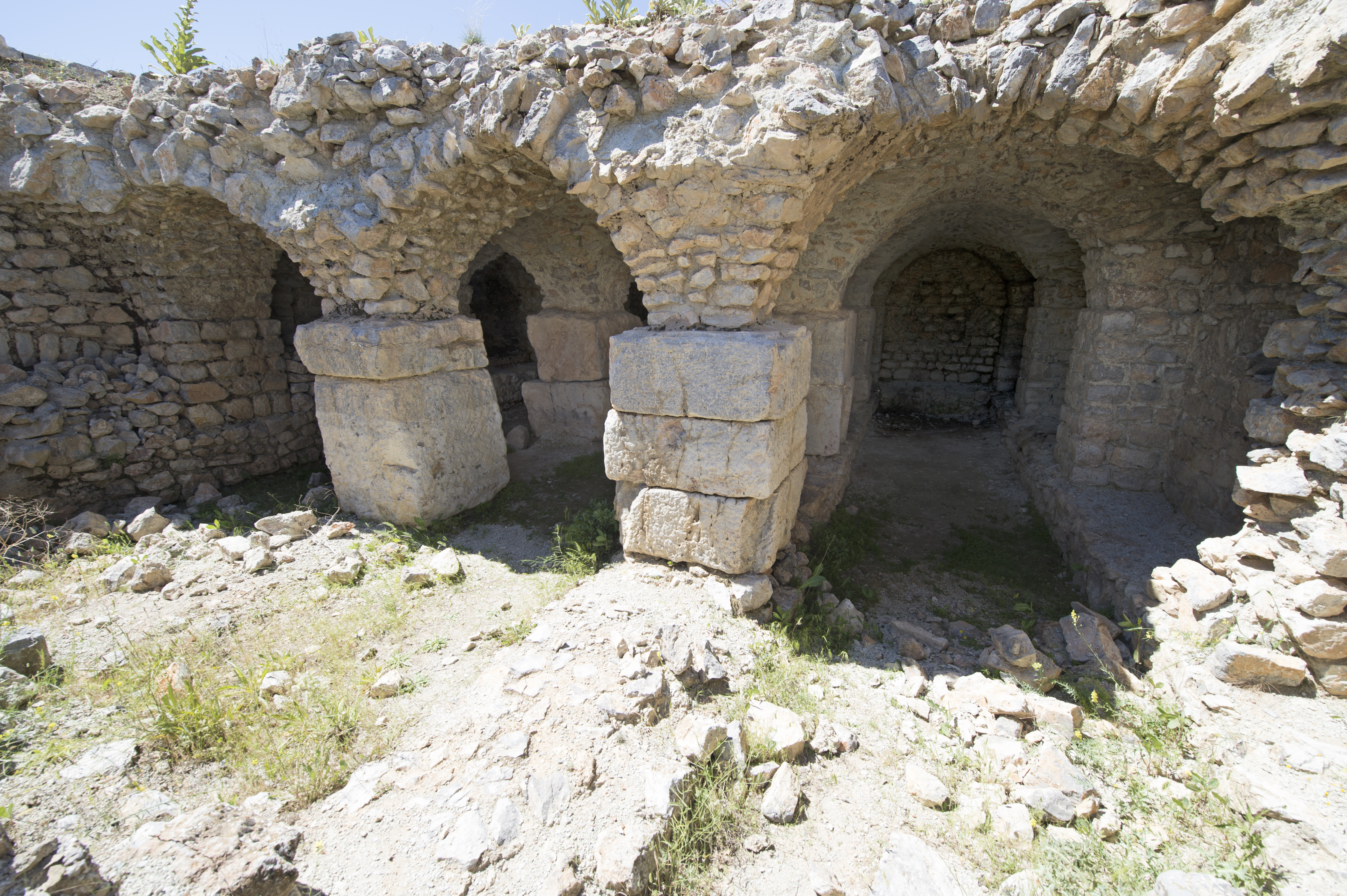 Roman Bath. This building, which is located at the northwest corner of the city, drawsattention with its large blocks and intact structure. The building, of which seven spaces have been excavated, measures 80 x 55. It is controversial whether is is a bath or not. Considering the sun and wind factors, the entrances and hearths of all baths are in the south and east directions; however, the situation is different. There are not many traces of water supply and heating systems [either – D.O.]. As in the Pergamon Trajan Temple, the building reveals itself as a structure carrying a large building with its vaults on a plain area obtained from the slope of the land. The building is dated to the 1st century AD. I understand the message here is: this is not a Roman Bath, but a substructure of a building that either disappeared or never was actually built.